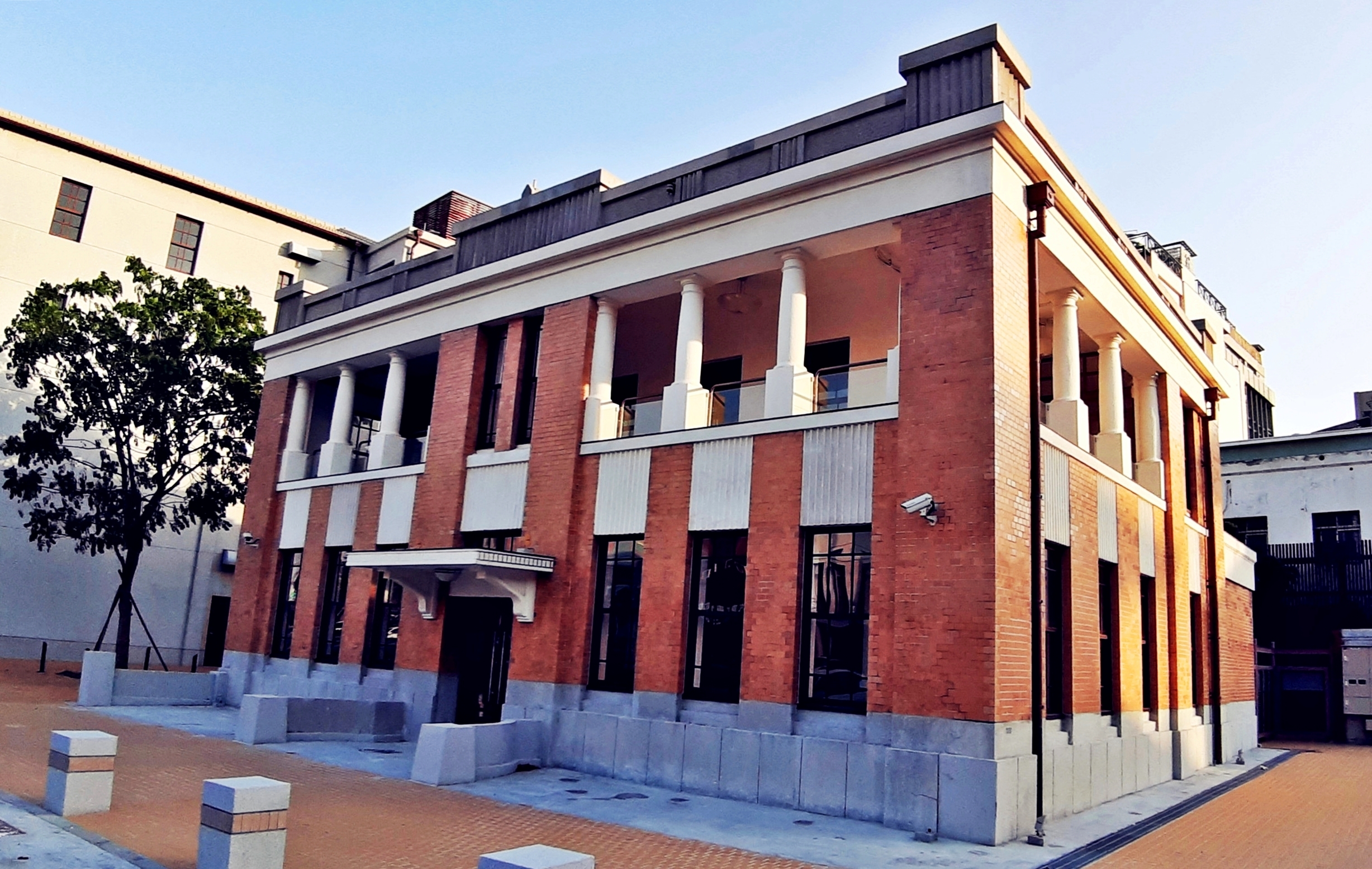 According to the literature, the building dates back to 1921 and is the location where the Sanwa Bank was located; it witnessed the commercial and financial booms in Hamasen area in the past.